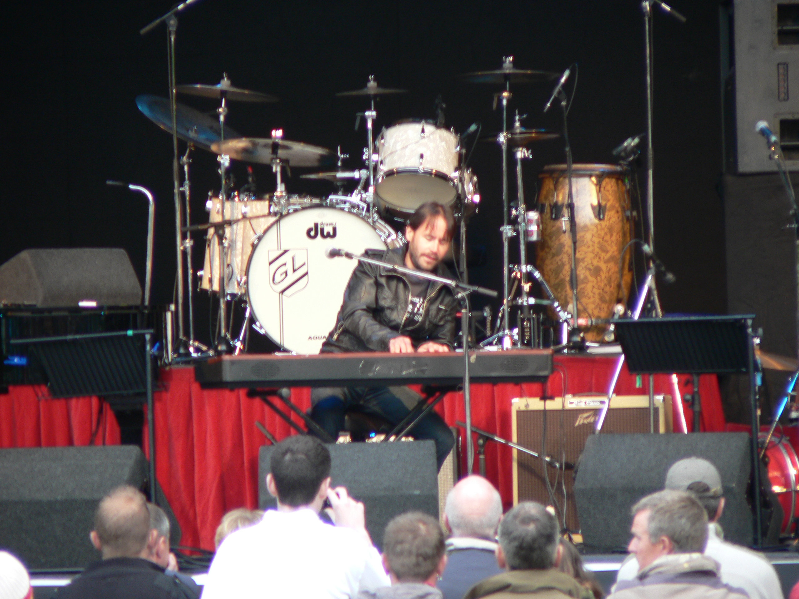 Christopher Holland playing keyboard at High Lodge, Thetford